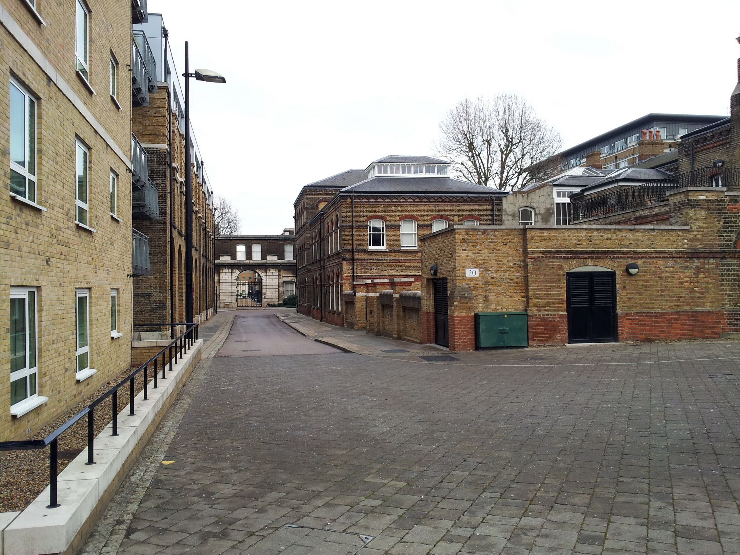 View towards the east of Chatham Close in Royal Arsenal, Woolwich, South East London. To the left Building 45. To the right Building 20.